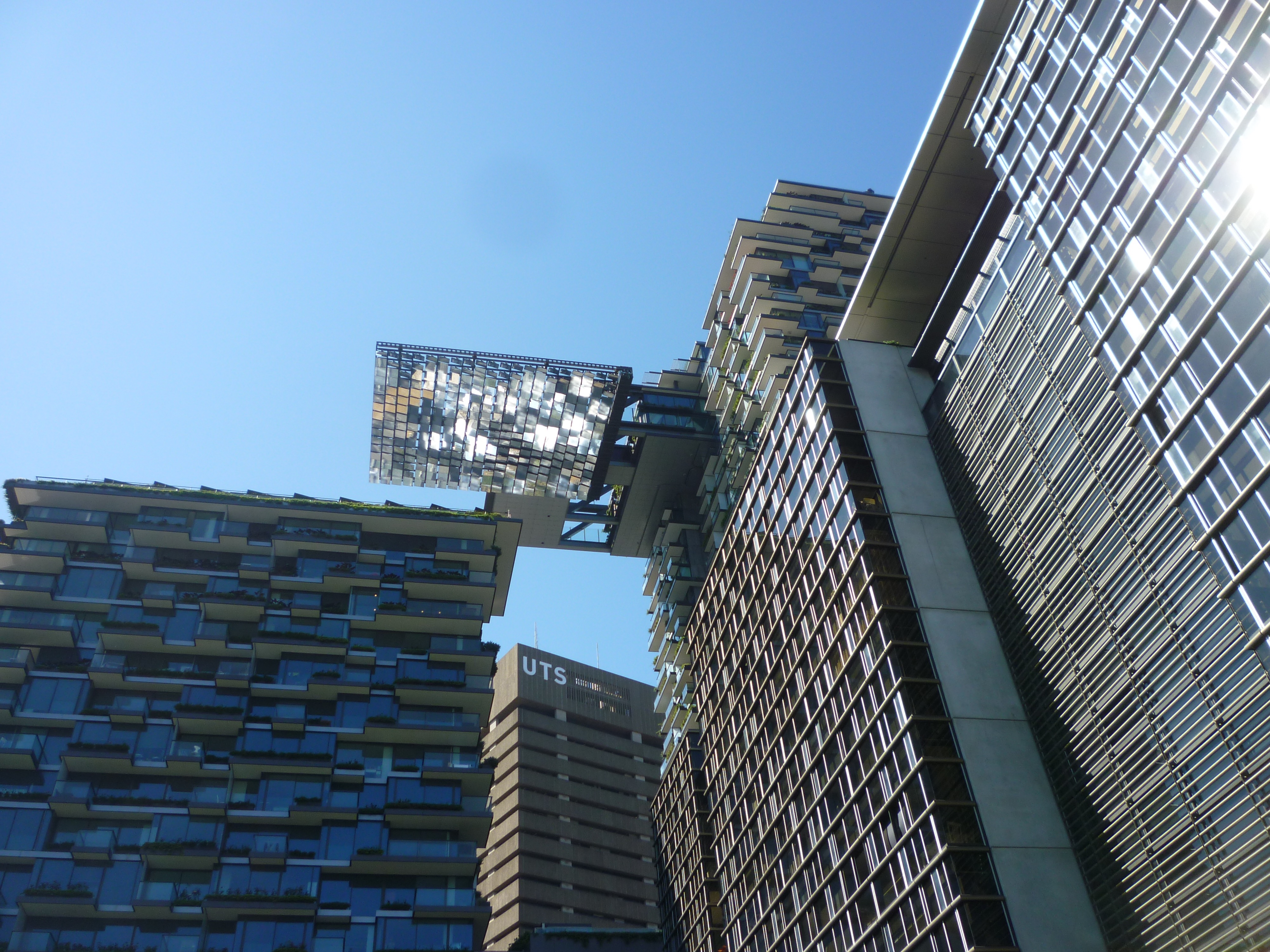 Heliostat at One Central Park with UTS tower in background